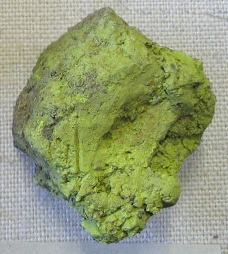 Yellow-green earthy massive chapmanite, from Smilkov, Czech Republic. Photograph taken at the Natural History Museum, London.